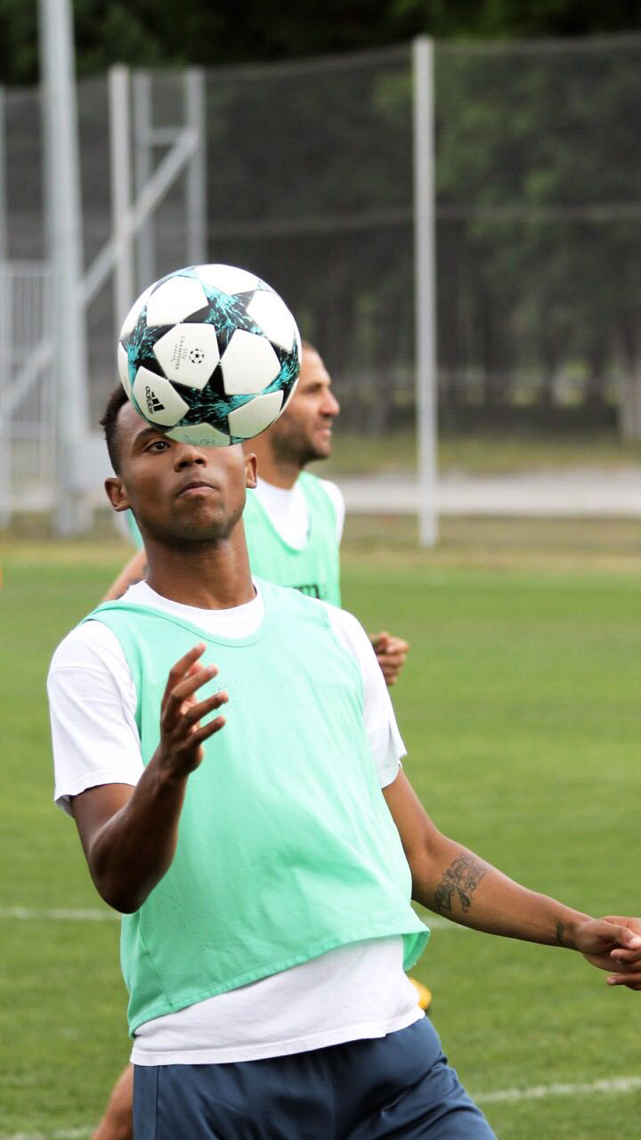 Guttiner